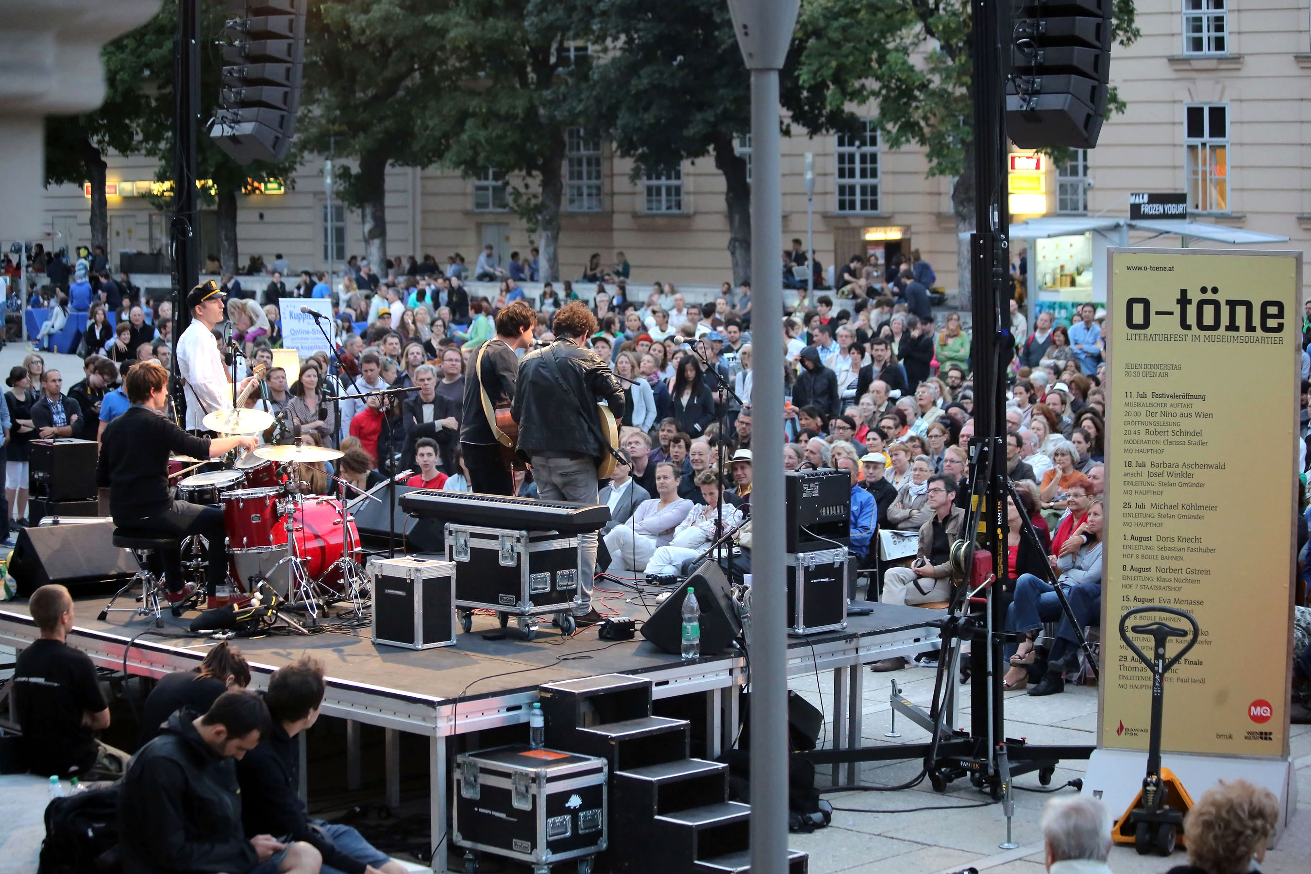 Der Nino aus Wien, opening of o-töne 2013 at Museumsquartier in Vienna.